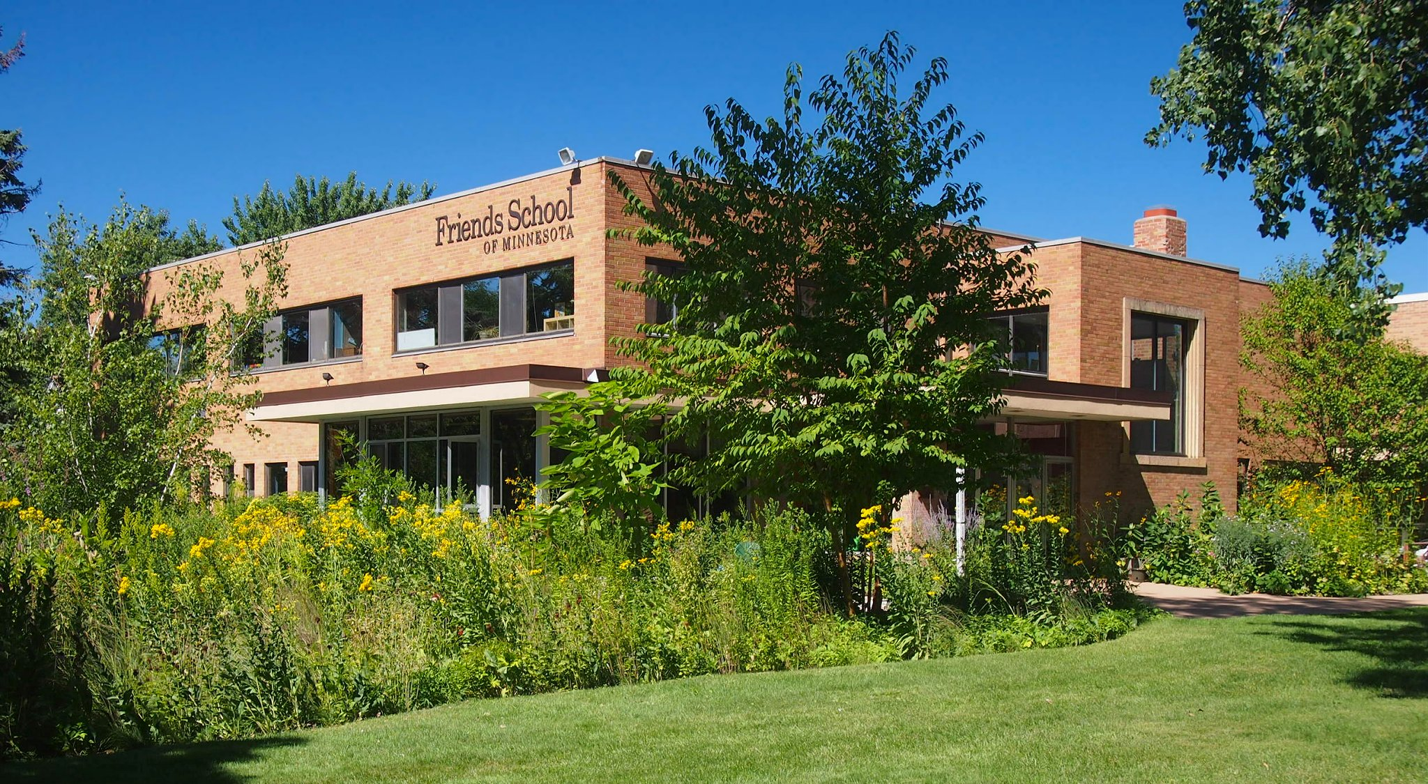 Friends School of Minnesota, 1365 Englewood Ave, St Paul, Minnesota, USA. Viewed from the southeast.